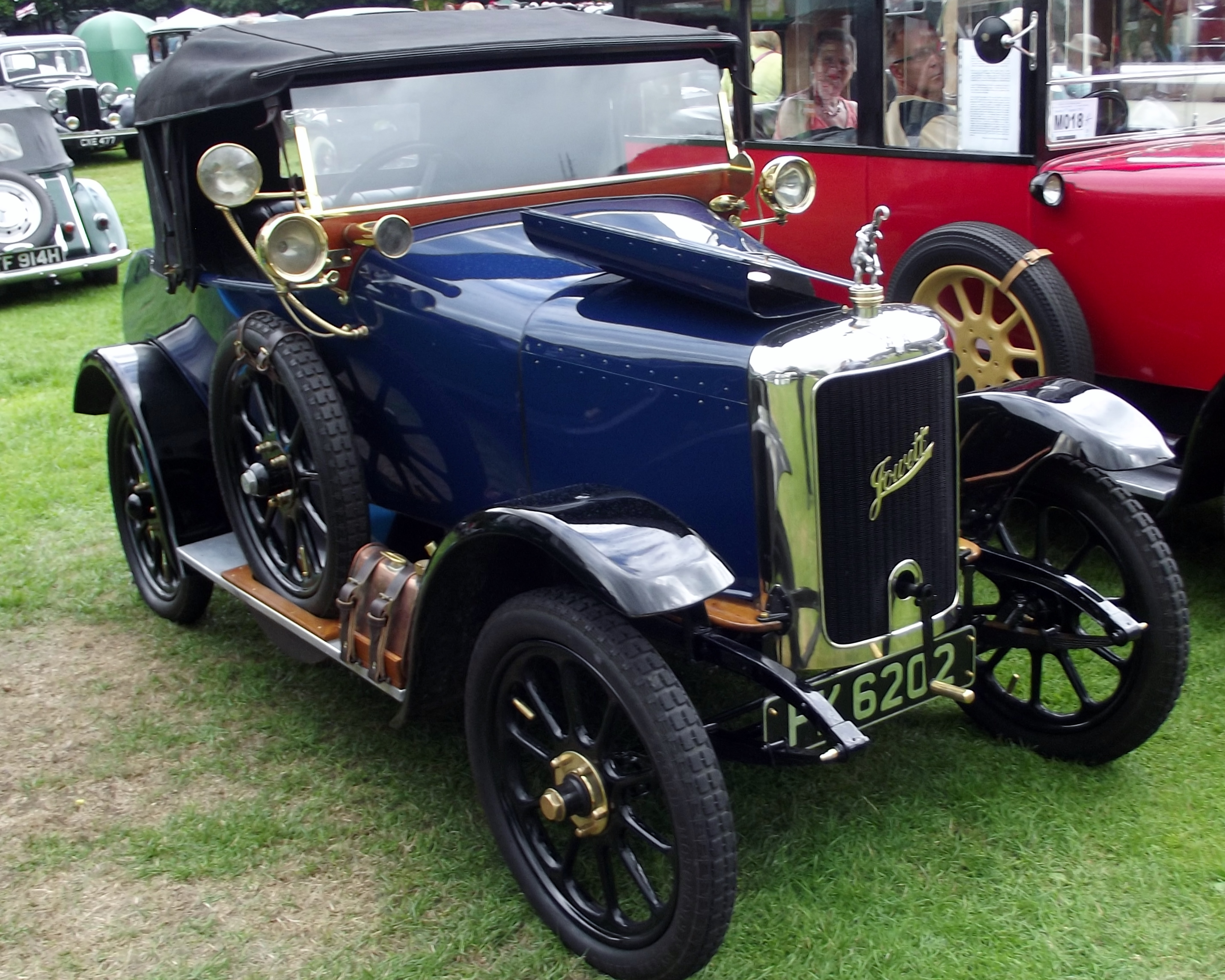 Jowett blue open two-seater (Short Two, 1922)